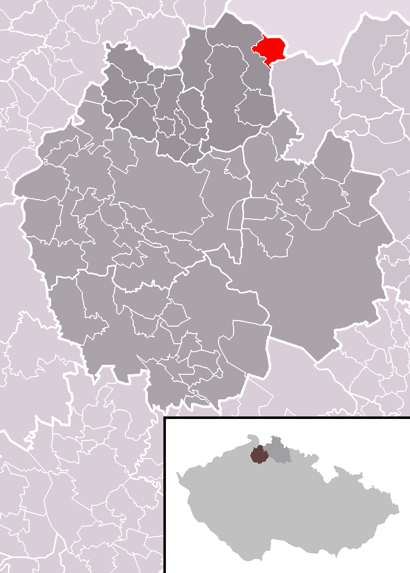 Location of Krompach municipality within Česká Lípa District and administrative area of Nový Bor as a Municipality with Extended Competence.